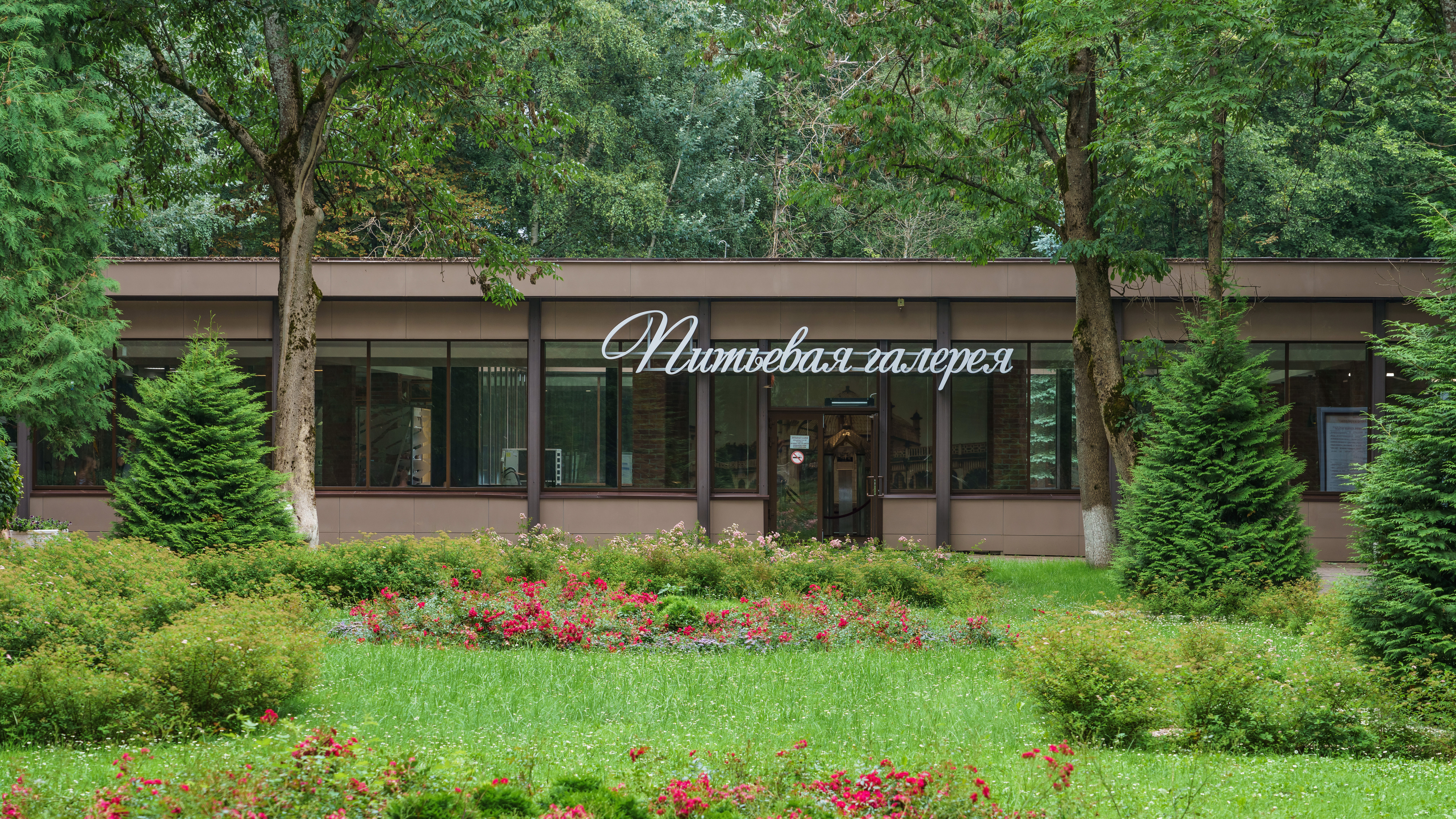 Pump house of the Resort in Staraya Russa, Novgorod Oblast, Russia